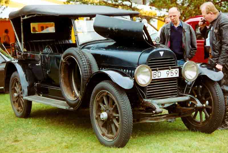 Hudson Super Six Series M Phaeton (1918)